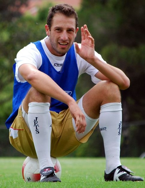 Andrew Durante at Newcastle Jets training.